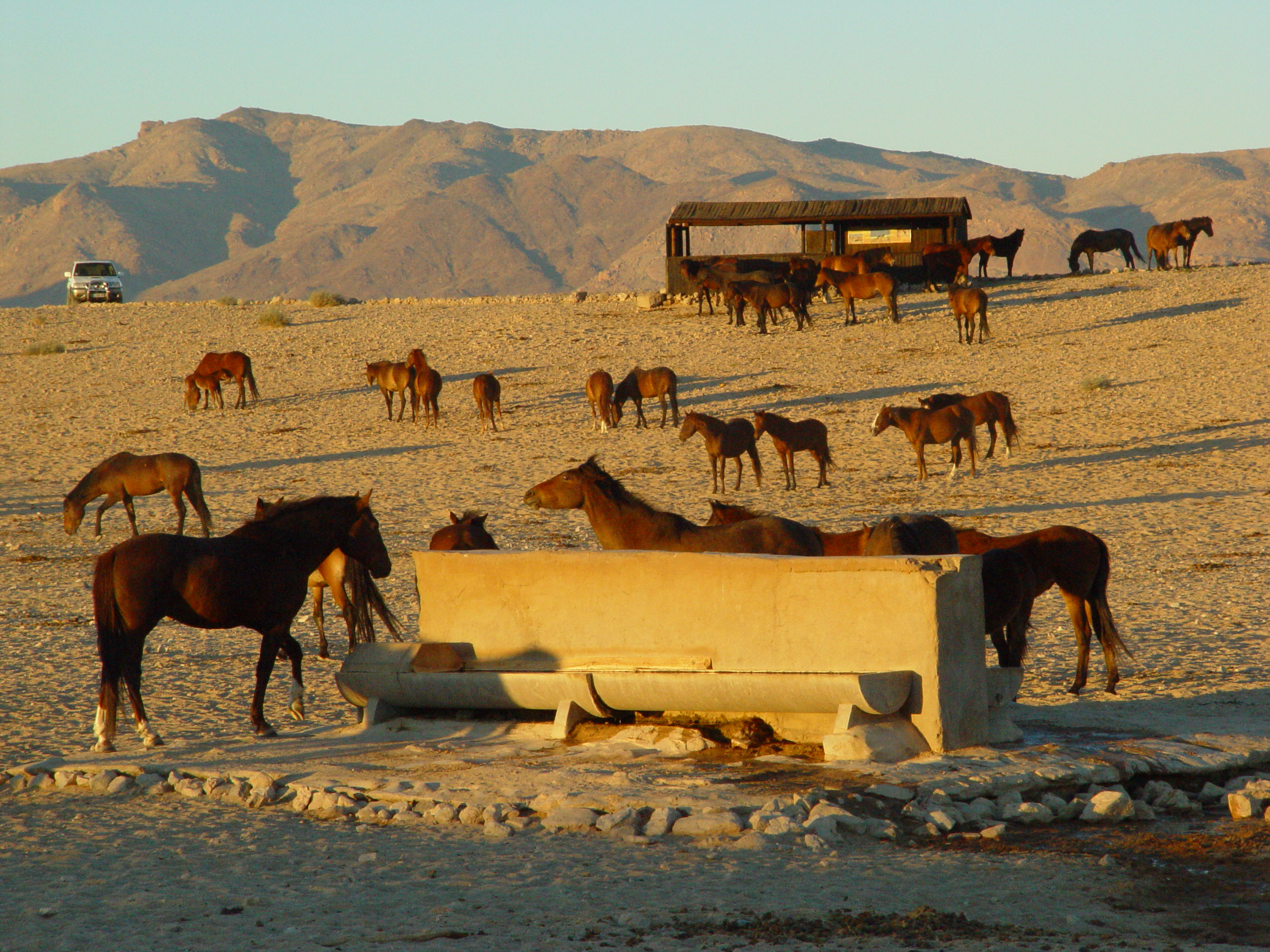 Namib desert horses at the watering hole at Garub. In the background is a shelter for visitors.